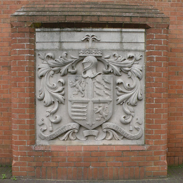 Bournemouth Arms on BIC Specifically on the Car Park, contemplating which the words Pulchritudo (Beauty) and Salubritas (Wholesomeness) are not the first spring to mind.